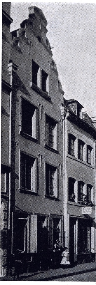 t